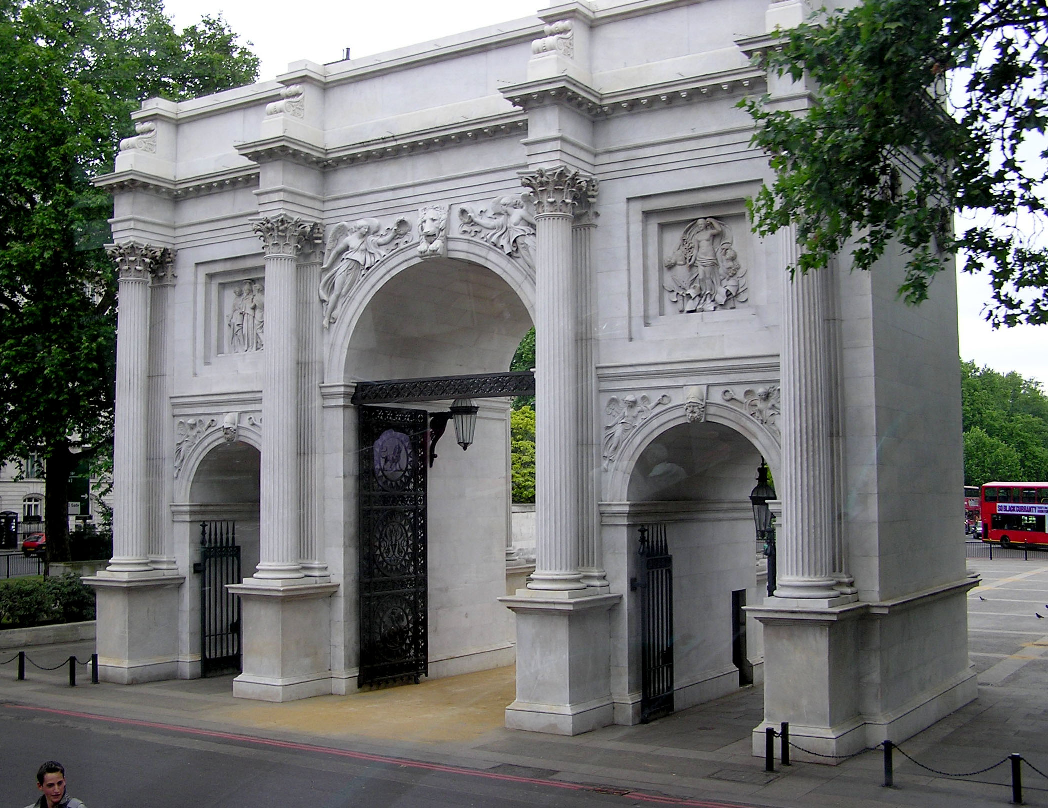 Marble Arch, London, England. Originally the front entrance to Buckingham Palace and now at the end junction of Park Lane and Oxford Street, which location is accordingly known as Marble Arch. Photographed by Adrian Pingstone in June 2005 (soon after restoration) and released to the public domain.